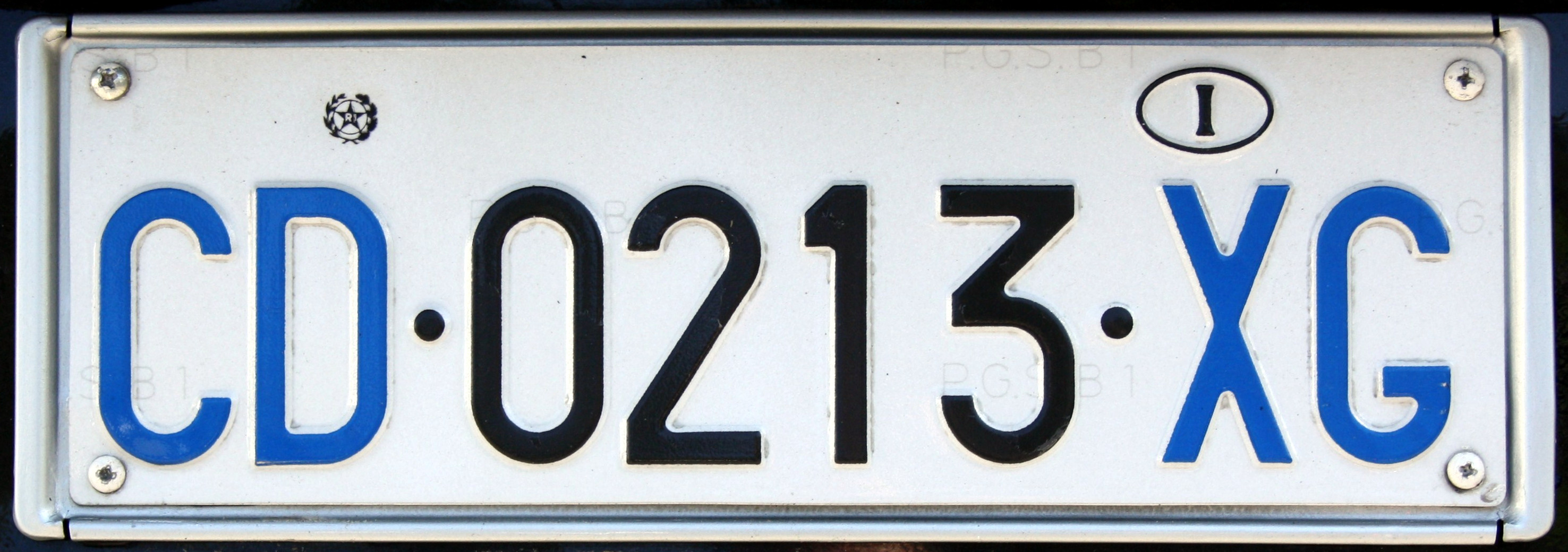 Italy, Vehicle registration plates of Italy. The Italian Diplomatic Service license plate belonged to the Vatican high officials resident in Italy. XQ is for Vatican.